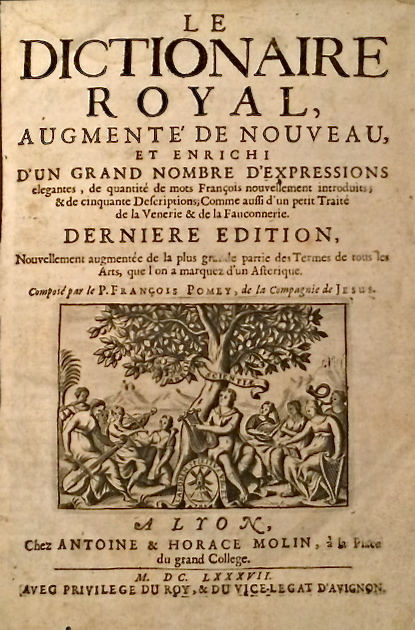 Front cover of the book "Le Dictionaire Royal Augmenté" (1687).François-Antoine Pomey